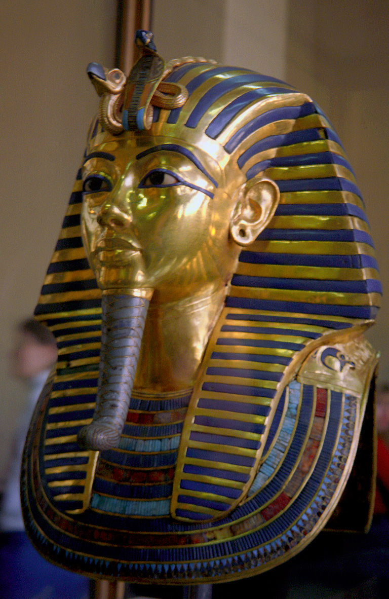 Tutankhamun